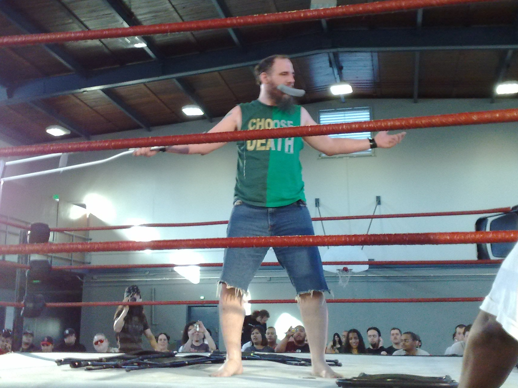 Professional wrestler Necro Butcher (real name Dylan Summers) in the ring at Pro Wrestling Guerrilla's DDT4 Night 2 show on May 18, 2008.